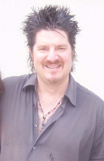 David Immerglück of Counting Crows. Cropped from a fan photo on titled "sis and i meet imme, wow!". Non-notable persons on left and right have been cropped out.